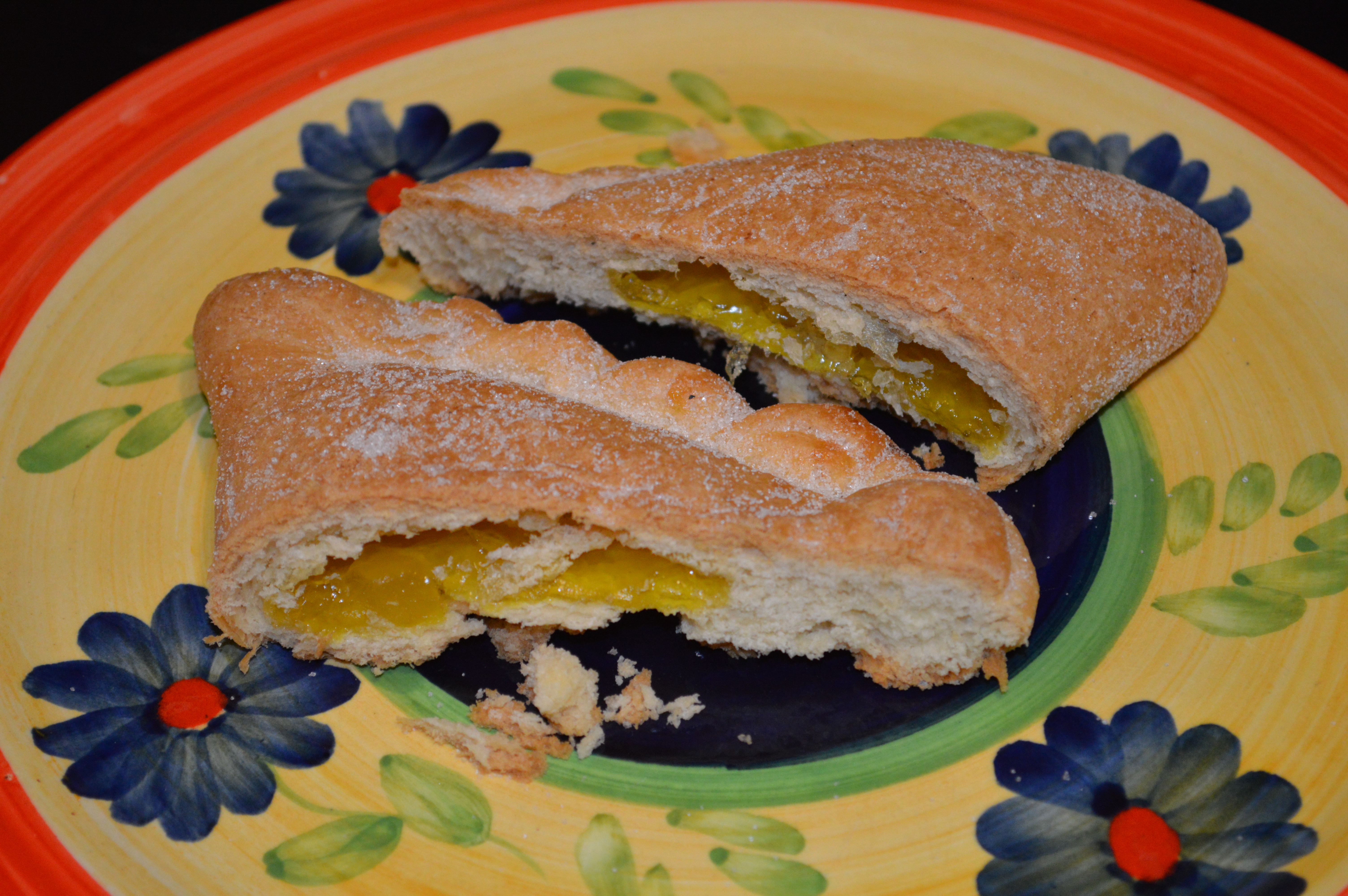 Empanada de piña (pineapple) from the bakery at the Comercial Mexicana supermarket in Colonia Asturias, Mexico City